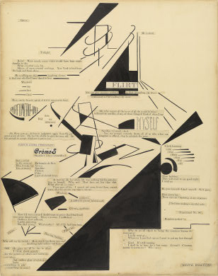 The earliest example of visual poetry in America—is the original maquette for a printed version published in the avant-garde magazine 291. The work is both a drawing and a poem by caricaturist Marius de Zayas (1880–1961) and the American journalist and art patron Agnes Ernst Meyer (1887–1970). The Gallery had acquired the printed version—the April 1915 issue of 291—a year earlier.